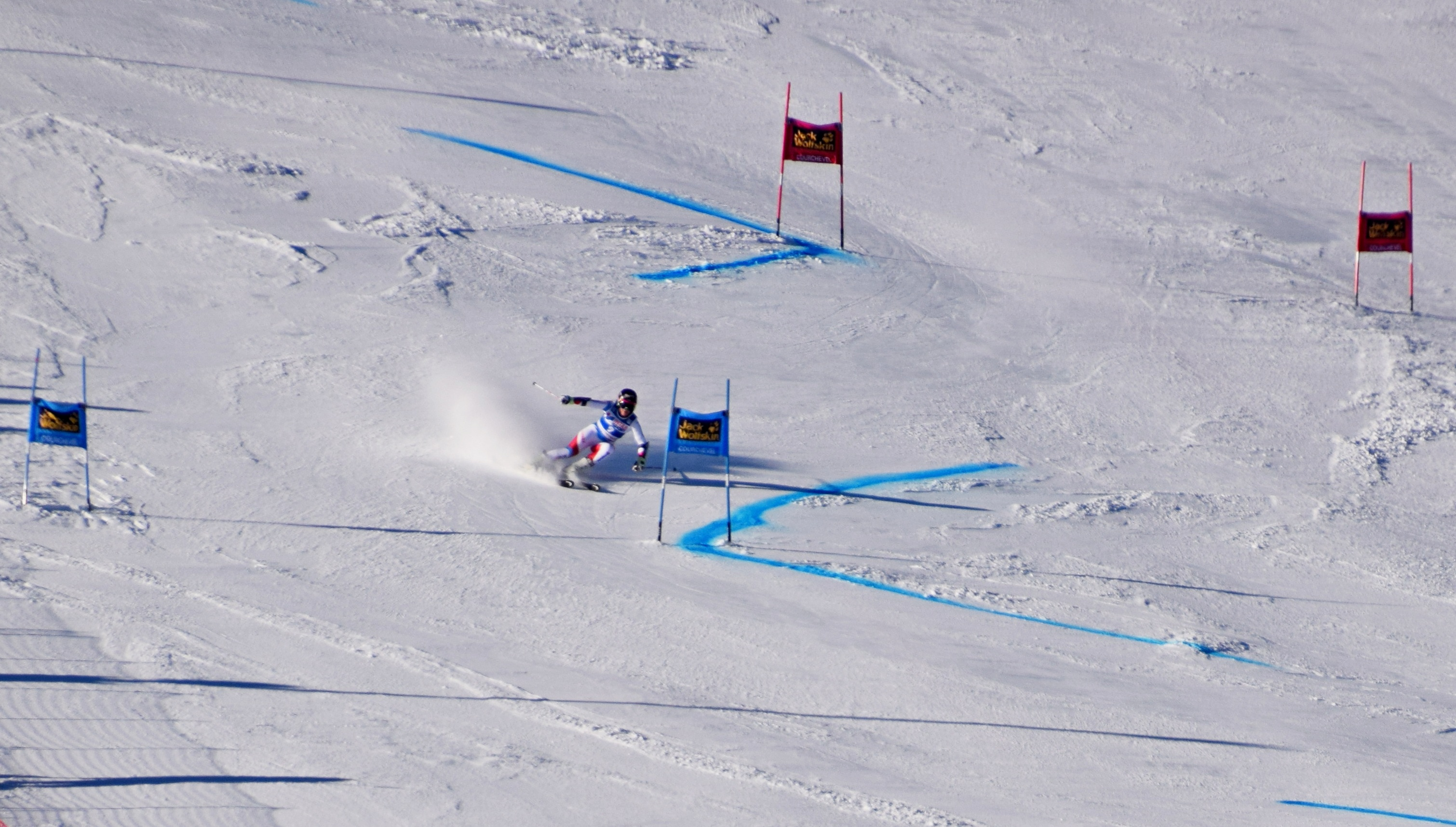 Lara Gut, 1 run of Giant Slalom, Alpine Skiing World Cup of Women in Courchevel, 20 december 2015